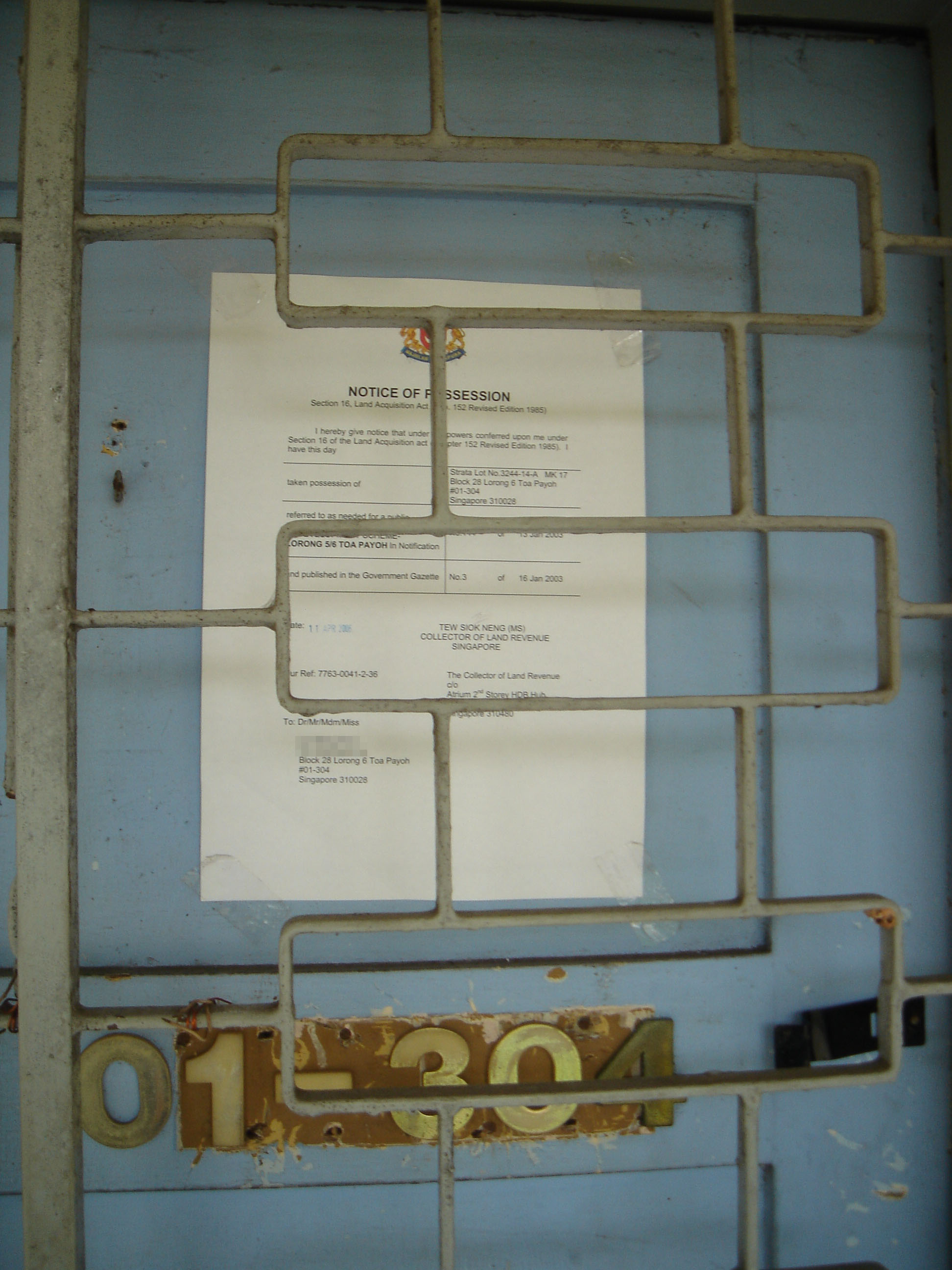 A flat stuck with an en-bloc notice under the Land Acquisitions Act.